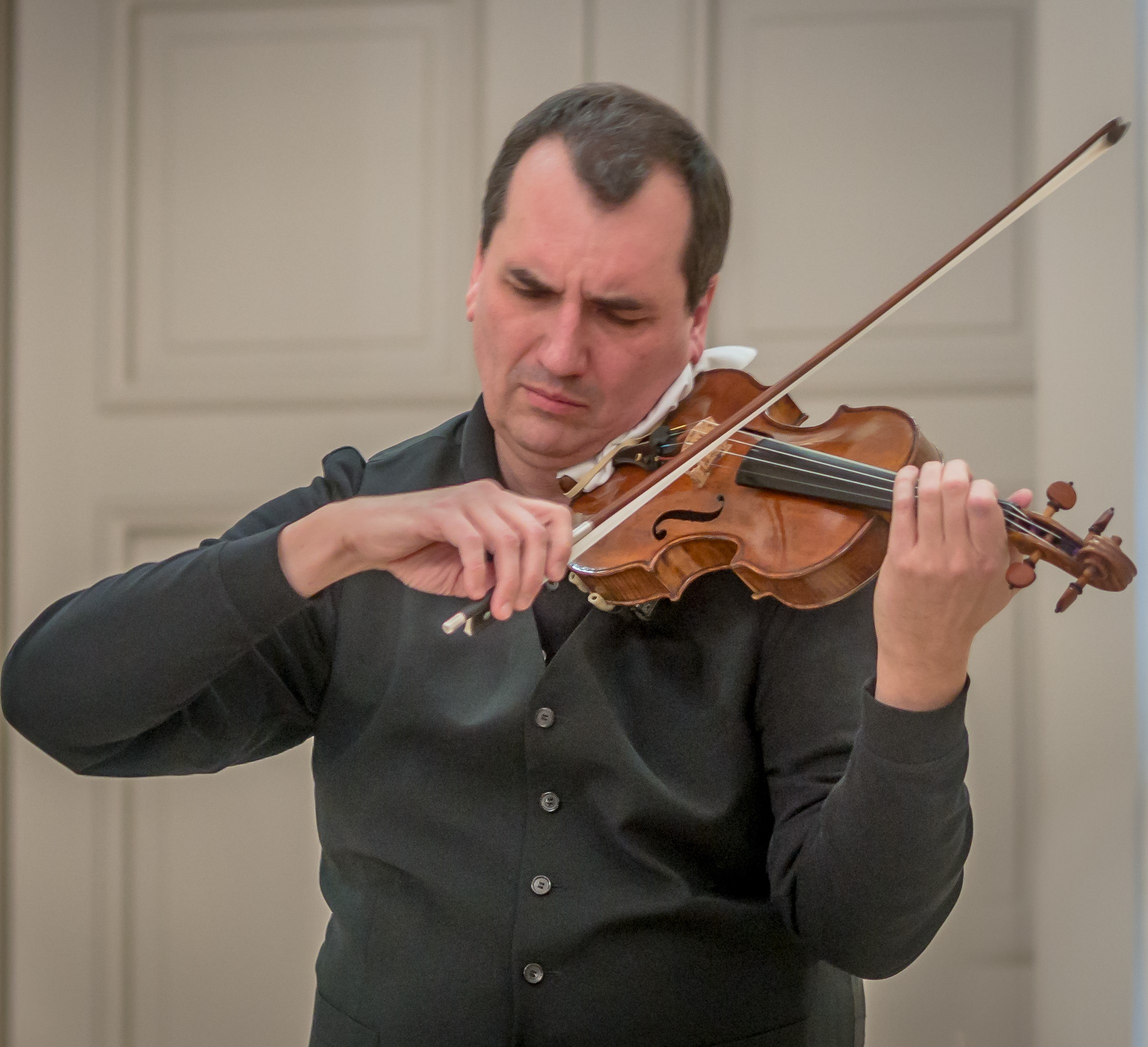 at Museum Art.Plus, Donaueschingen, Germany